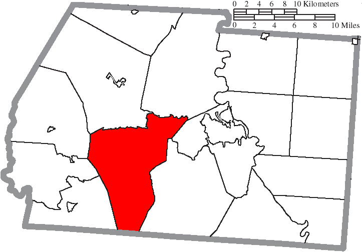 Map of the municipal and township boundaries of Ross County, Ohio, United States, as of the 2000 census, with the location of Twin Township highlighted. Township borders are shown only in unincorporated areas in order to differentiate incorporated and unincorporated areas more clearly.